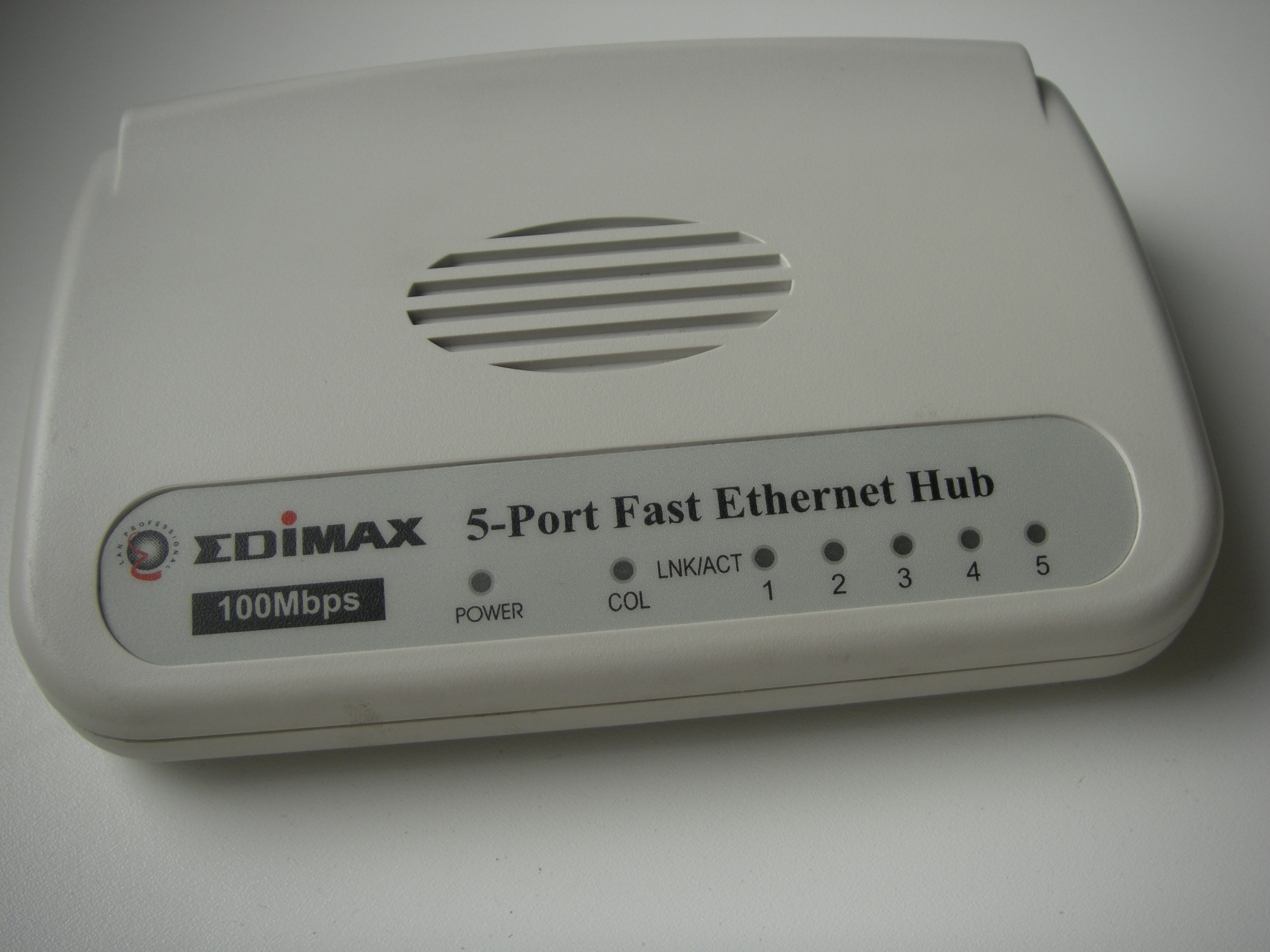 Edimax 4 ports hub (SOHO formfactor) - may be ER-5395P